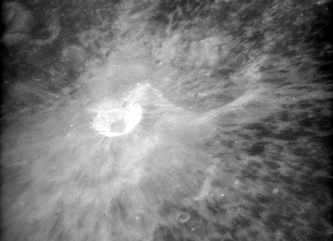 Oblique view of Petit crater, facing north, on the moon. Taken by Apollo 16 panoramic camera.